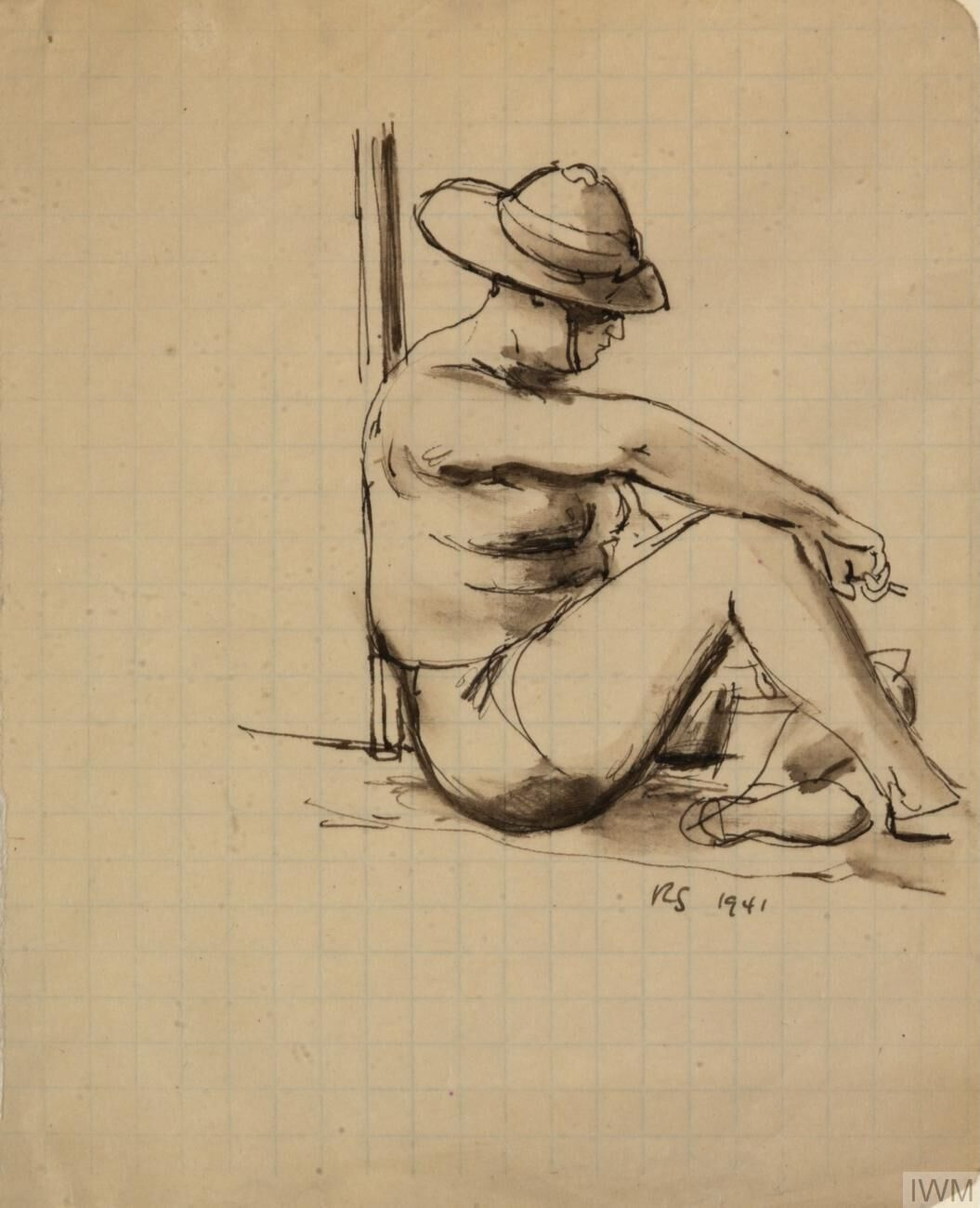 "After all the excitement of our two African halts, and with two more weeks at sea....we settled down peacefully for the long journey across the Indian Ocean...to settle comfortably on the shady side of the deck, we now had to undo the two top buttons of our tropical shorts..." from 'To the Kwai - a image: A portrait sketch of an overweight soldier wearing very tight shorts and a sola topi, sitting on a deck and leaning on a pole. He sits with one leg raised, his right arm resting on his knee, a cigarette in his right hand.